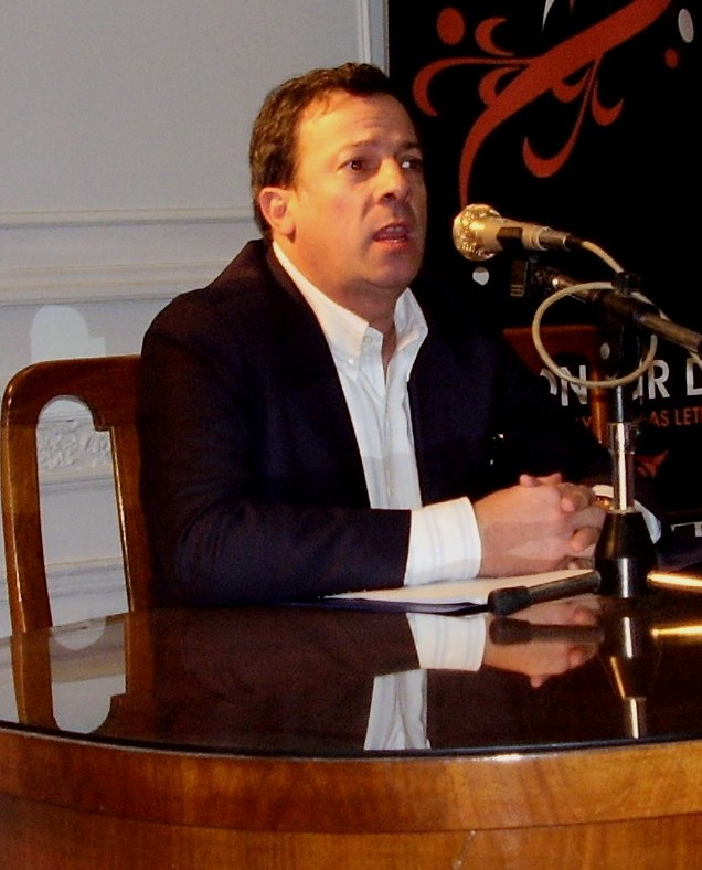 Picture of Argentinean writer: Carlos Alvarado-Larroucau, francophone author